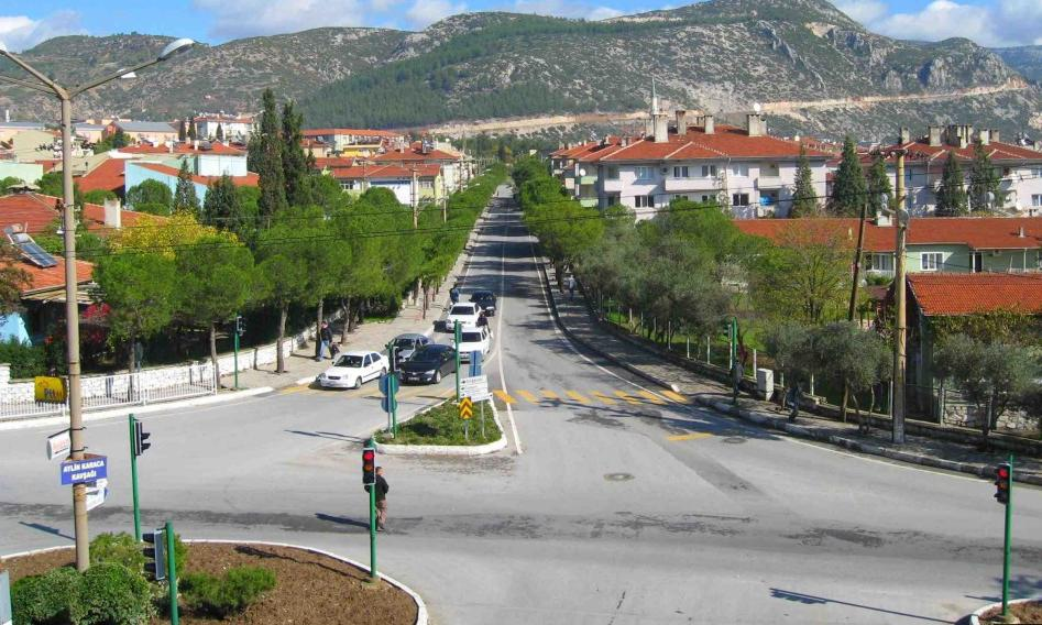 Zihni Derin Street in his native Muğla, Turkey